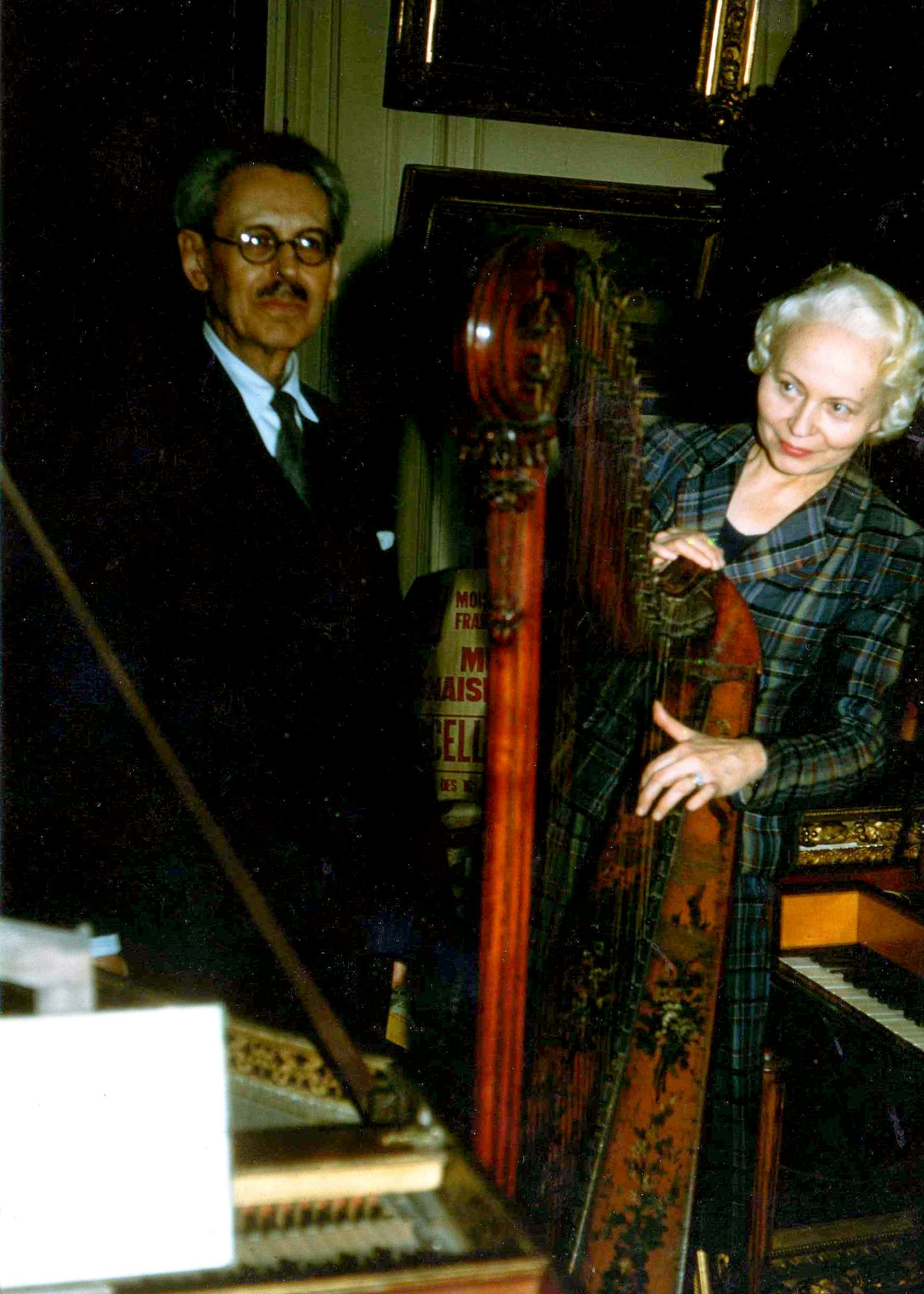 Family Photograph from the mid 1950s at thier home in Paris.